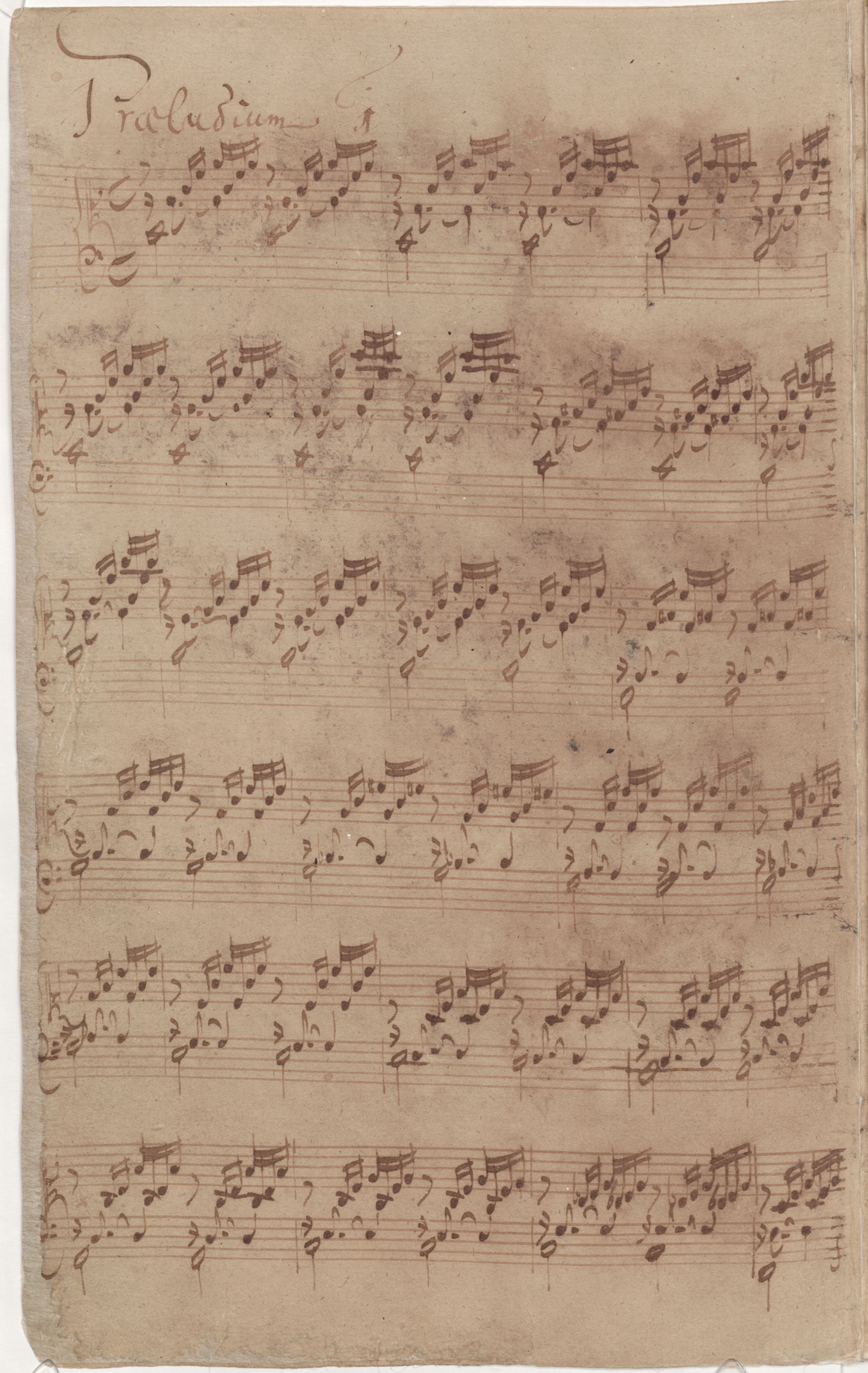 Prelude No. 1 from the first volume of The Well-Tempered Clavier, in Bach's handwriting, ms. P 415.